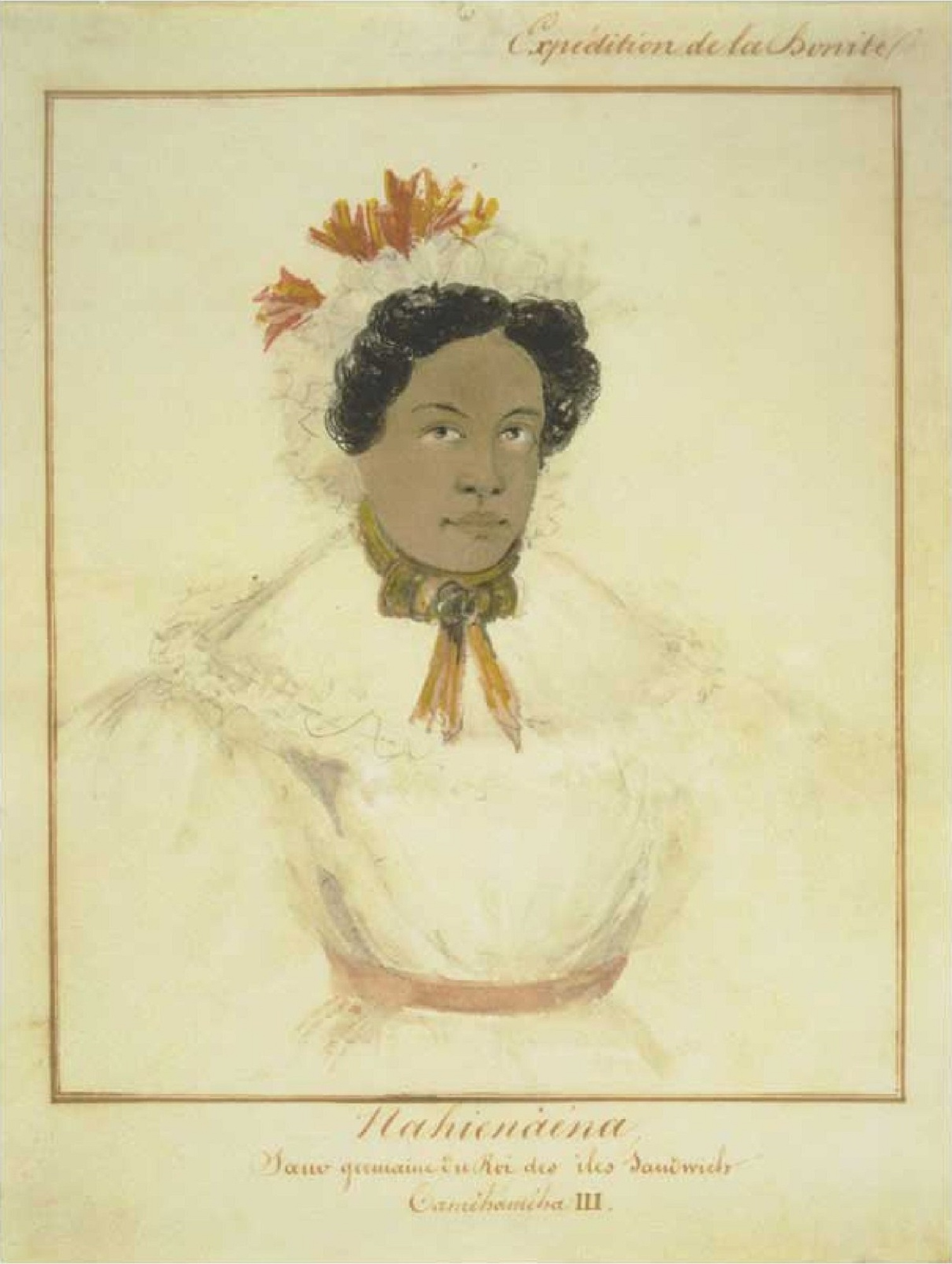 Nahienaena Soeur germaine du Roi des iles Sandwich Tamehameha III [Hawai‘i], watercolor, pencil and wash on paper, c. 1836 by Barthelemy Lauvergne.